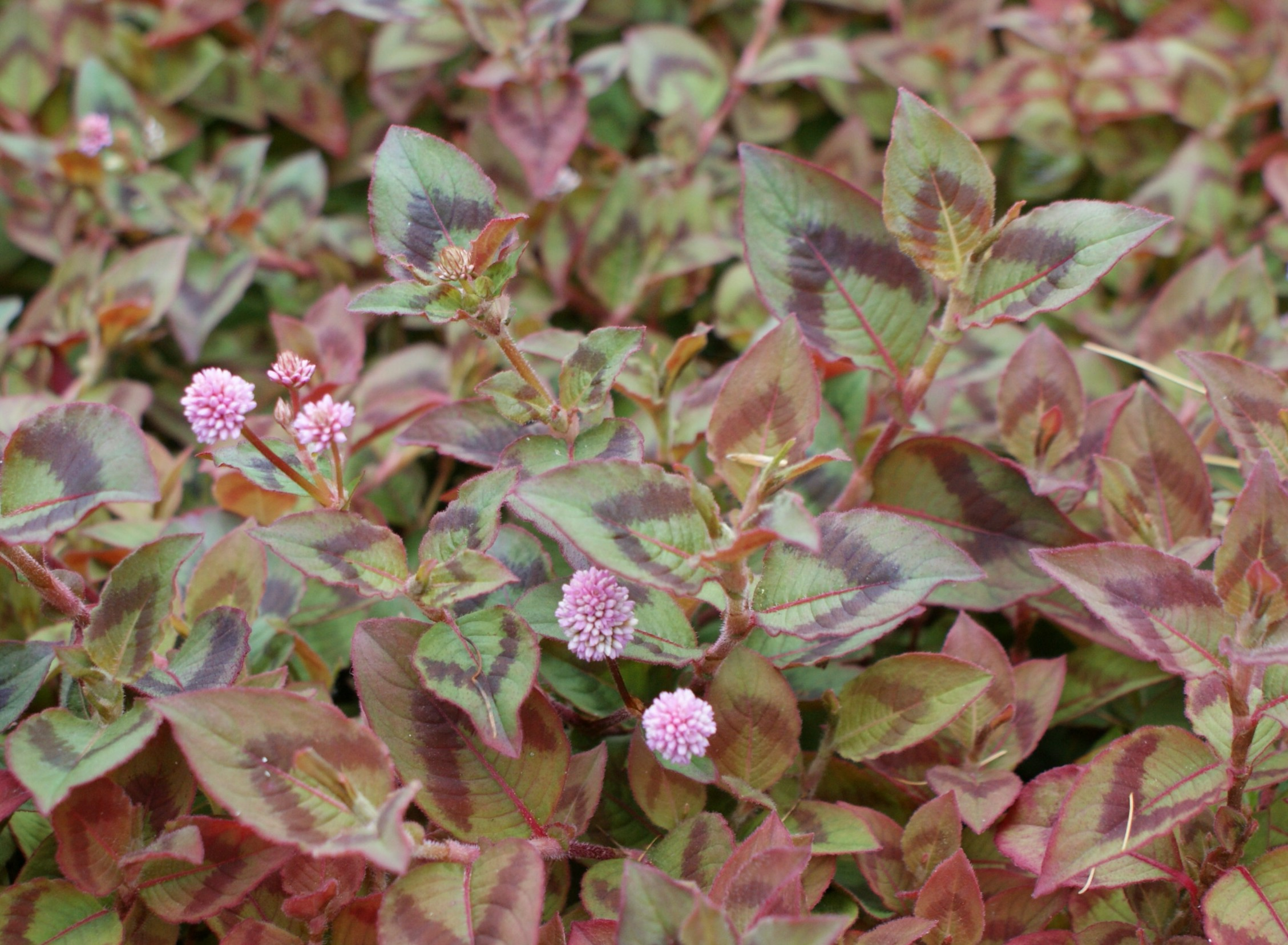 Persicaria capitata